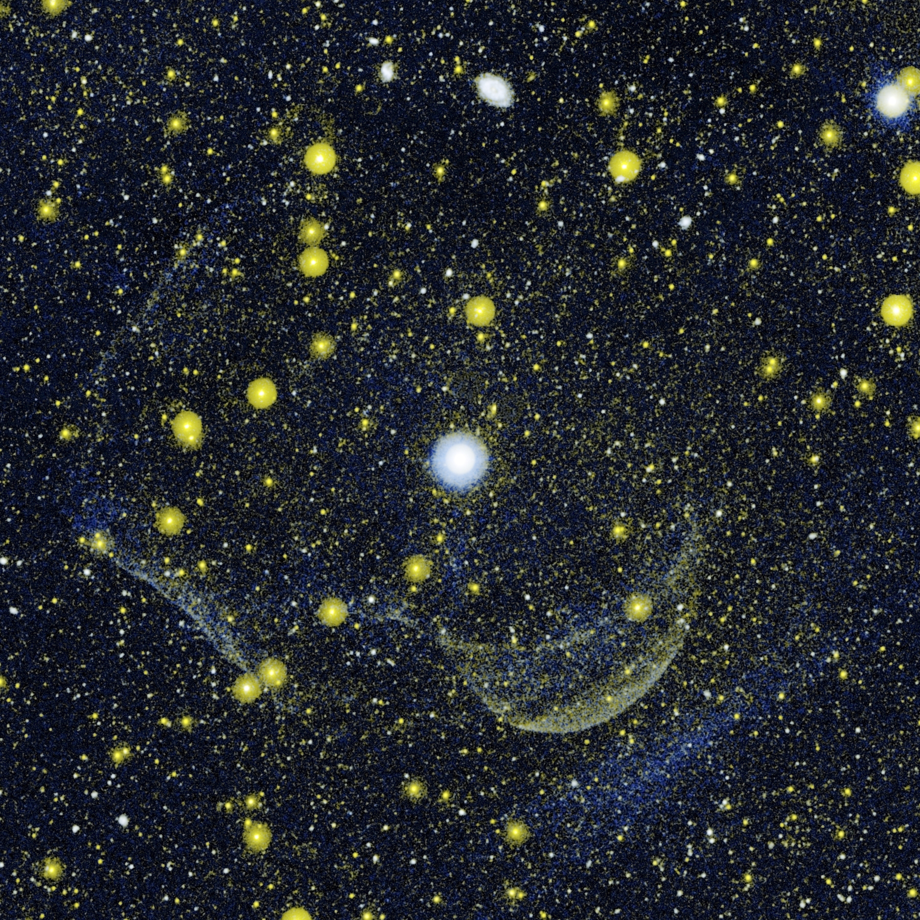 This composite image shows Z Camelopardalis, or Z Cam, a double-star system featuring a collapsed, dead star, called a white dwarf, and a companion star, as well as a ghostly shell around the system. The massive shell provides evidence of lingering material ejected during and swept up by a powerful classical nova explosion that occurred probably a few thousand years ago. The image combines data gathered from the far-ultraviolet and near-ultraviolet detectors on NASA's Galaxy Evolution Explorer on Jan. 25, 2004. The orbiting observatory first began imaging Z Cam in 2003. Z Cam is the largest white object in the image, located near the center. Parts of the shell are seen as a lobe-like, wispy, yellowish feature below and to the right of Z Cam, and as two large, whitish, perpendicular lines on the left. Z Cam was one of the first known recurrent dwarf nova, meaning it erupts in a series of small, "hiccup-like" blasts, unlike classical novae, which undergo a massive explosion. That's why the huge shell around Z Cam caught the eye of astronomer Dr. Mark Seibert of Carnegie Institution of Washington in Pasadena, Calif. -- it could only be explained as the remnant of a full-blown classical nova explosion. This finding provides the first evidence that some binary systems undergo both types of explosions. Previously, a link between the two types of novae had been predicted, but there was no evidence to support the theory. The faint bluish streak in the bottom right corner of the image is ultraviolet light reflected by dust that may or may not be related to Z Cam. Numerous foreground and background stars and galaxies are visible as yellow and white spots. The yellow objects are strong near-ultraviolet emitters; blue features have strong far-ultraviolet emission; and white objects have nearly equal amounts of near-ultraviolet and far-ultraviolet emission.